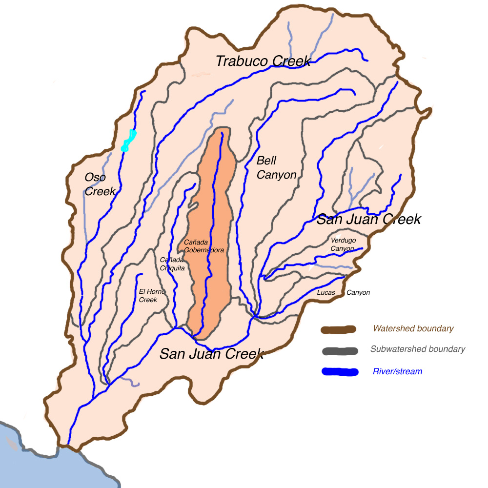 Map of San Juan Creek watershed, California, with Cañada Gobernadora subwatershed in orange